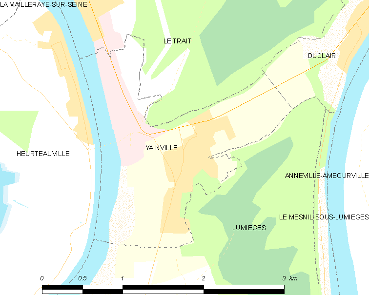 Map of French municipality Yainville